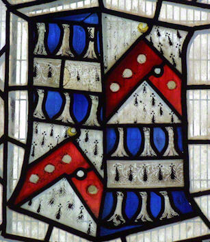 Sir William Spencer coat of arms